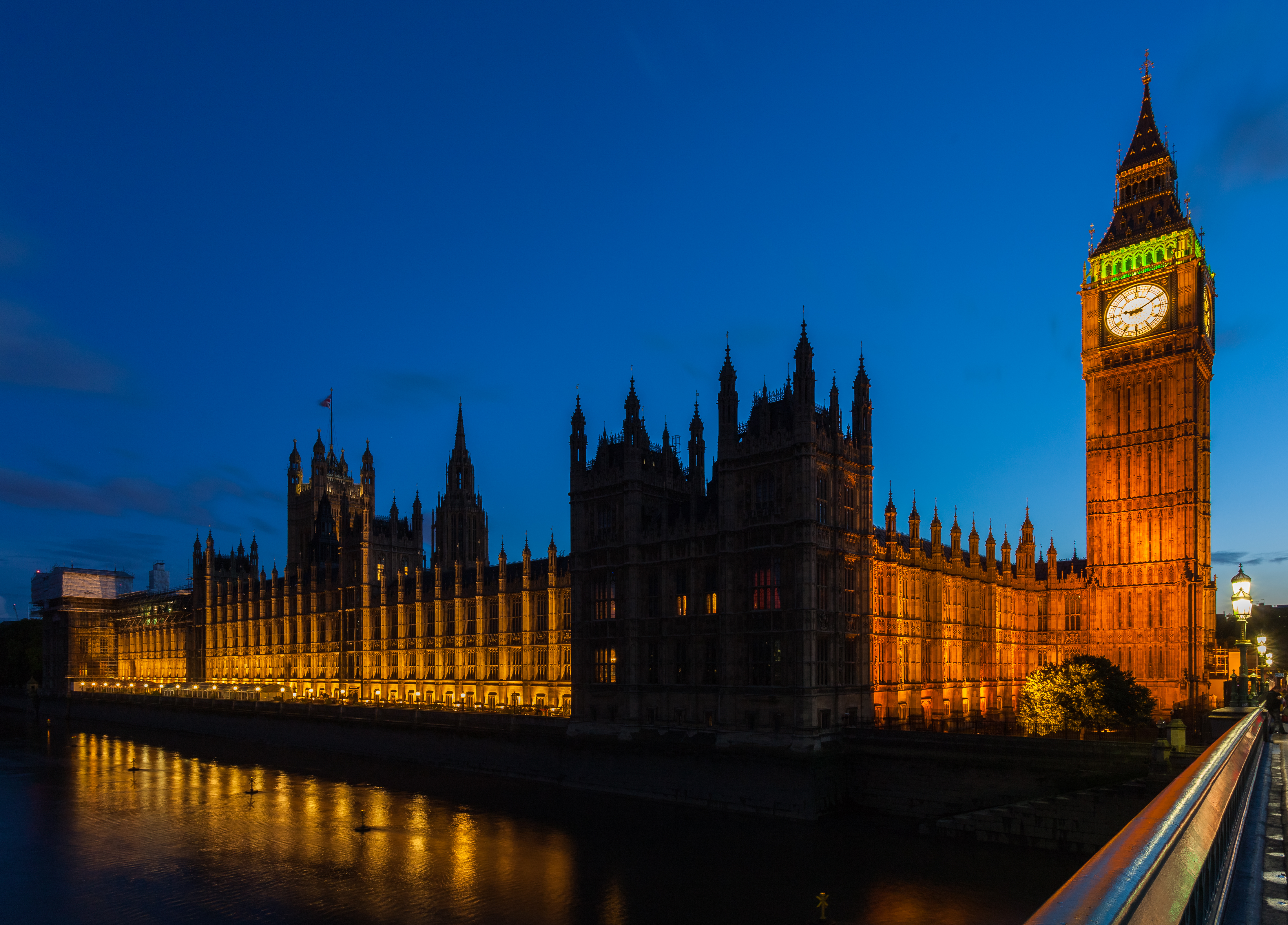 Palace of Westminster, London, England